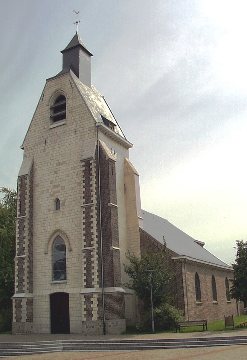 Church of Lezenes (XXnd Century)